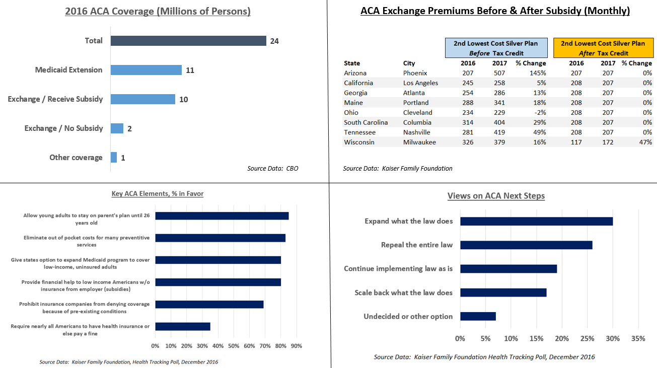 This panel chart illustrates several aspects of the Affordable Care Act, including coverage, cost, and public opinion.